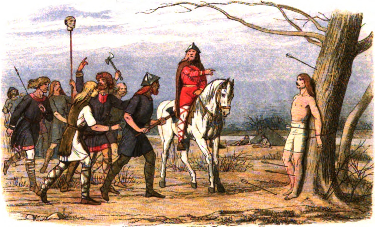 Edmund the Martyr is killed by the Danes.